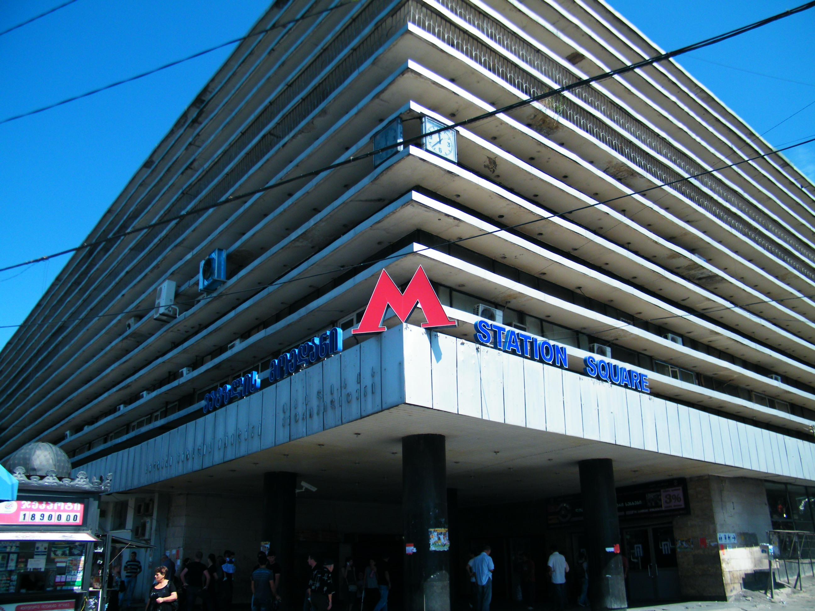 Tbilisi Metro: Station Square